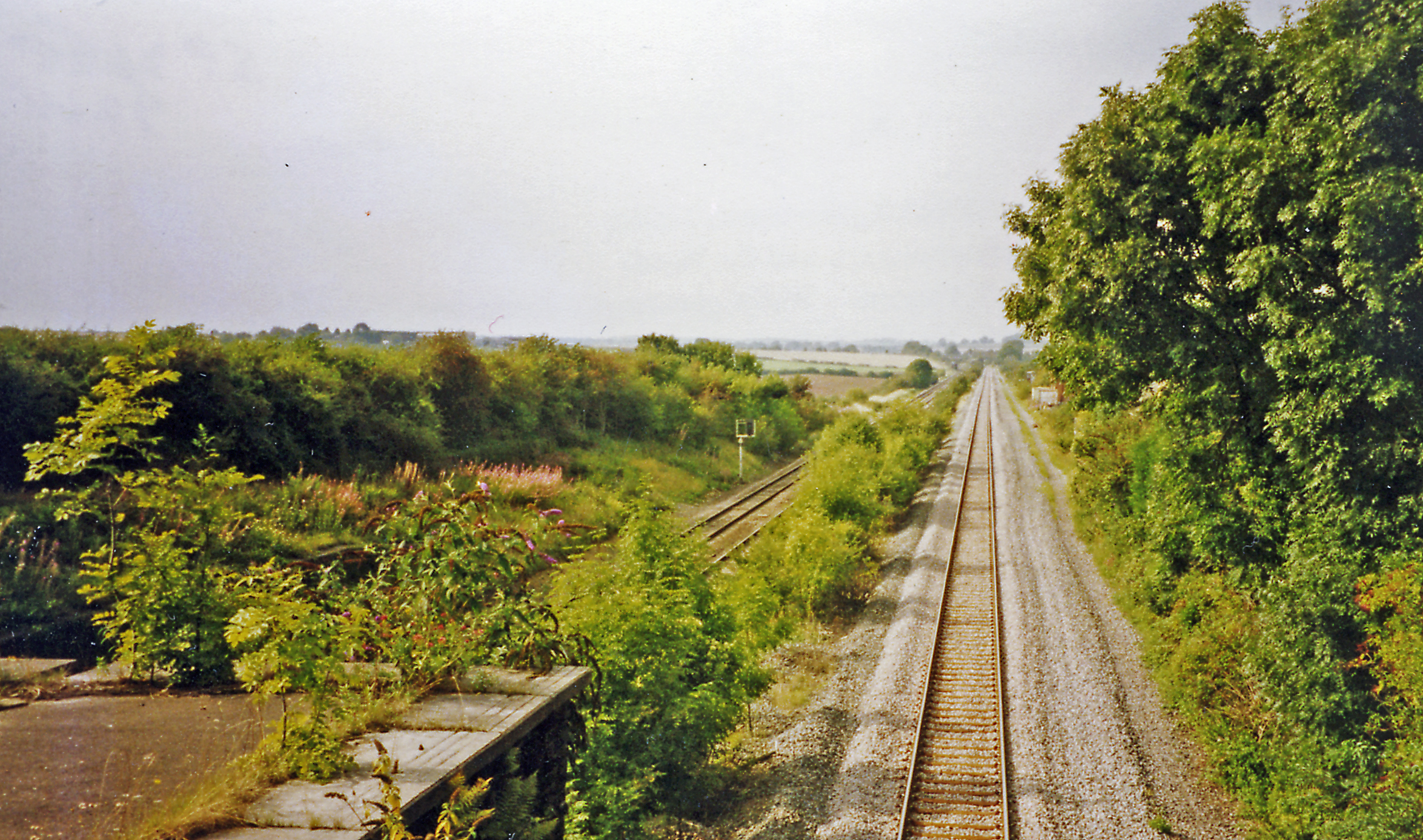 Site of former Irchester station. View NW from the B569 bridge, towards Wellingborough, Kettering and the North: ex-Midland Main Line from London St Pancras. The single line on the right is the Slow line, formerly double-track, which had been built in 1880-84 with a tunnel under Souldrop Summit for goods trains to avoid the steep gradients of the original route; it was singled in 1987. Irchester station was closed to passengers 7/3/60, to goods 4/1/65.